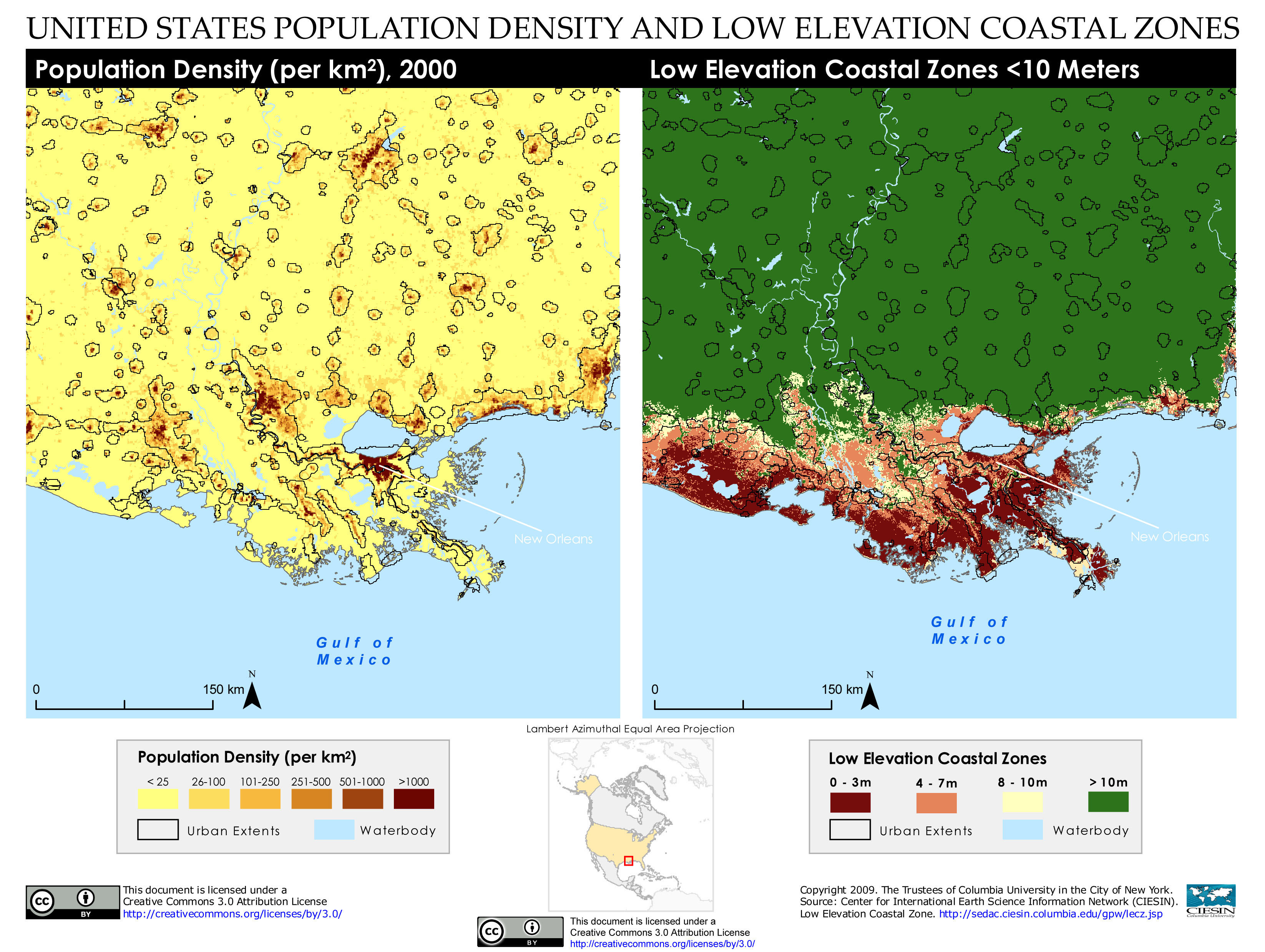 New Orleans, Louisiana, United States of America: Population Density and Low Elevation Coastal Zones